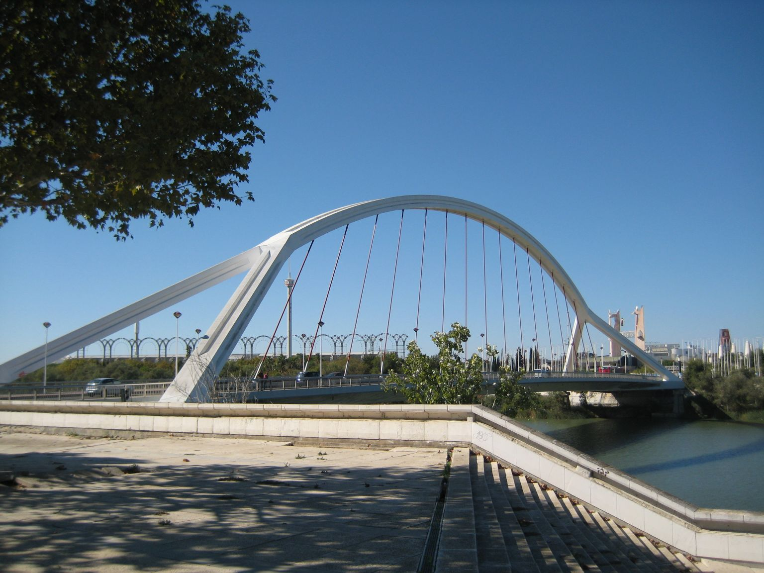 The Puente de la Barqueta, spanning the Rio Guadalquivir in Sevilla, Spain.